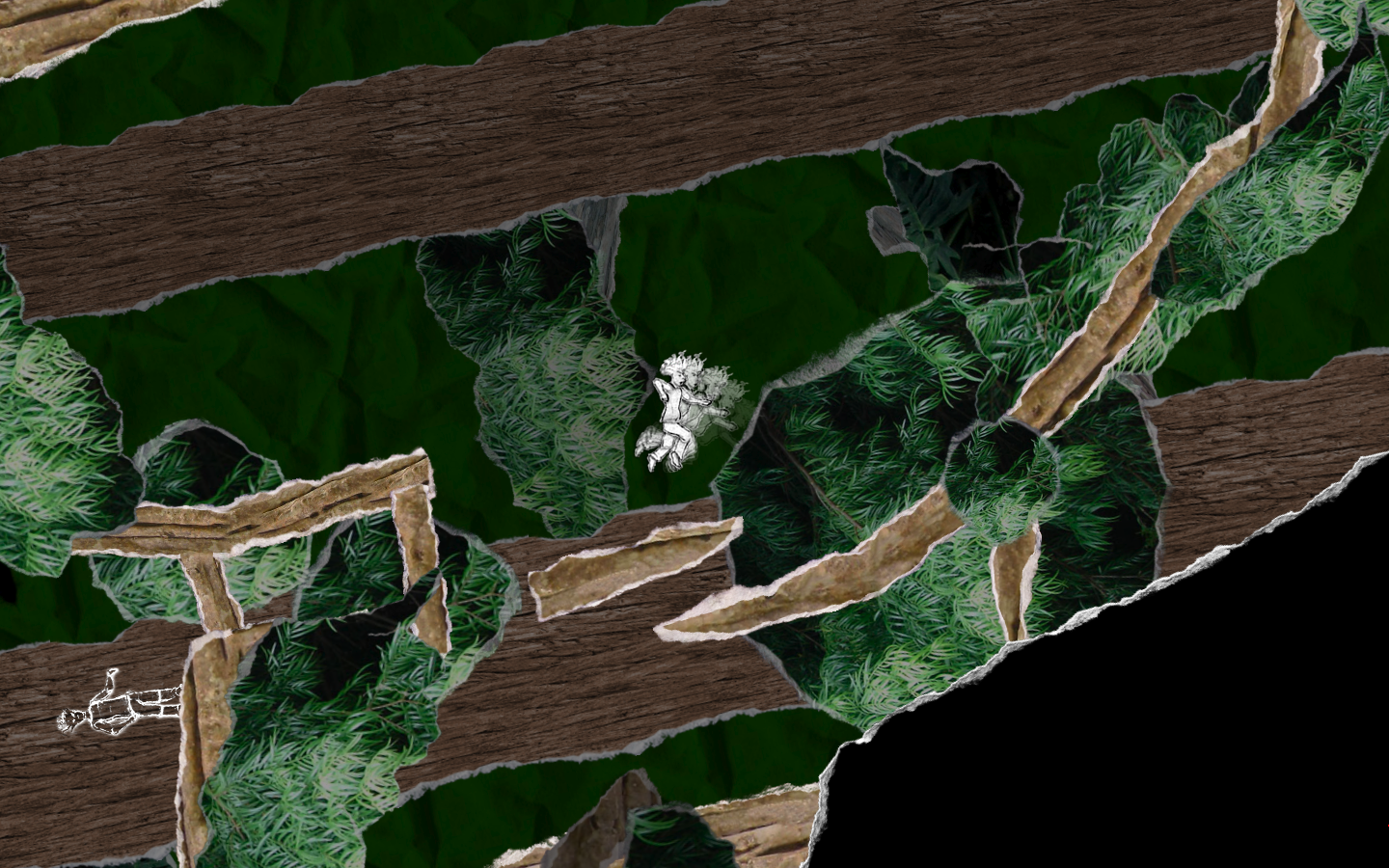 And Yet It Moves screenshot, by Broken Rules (game developer)